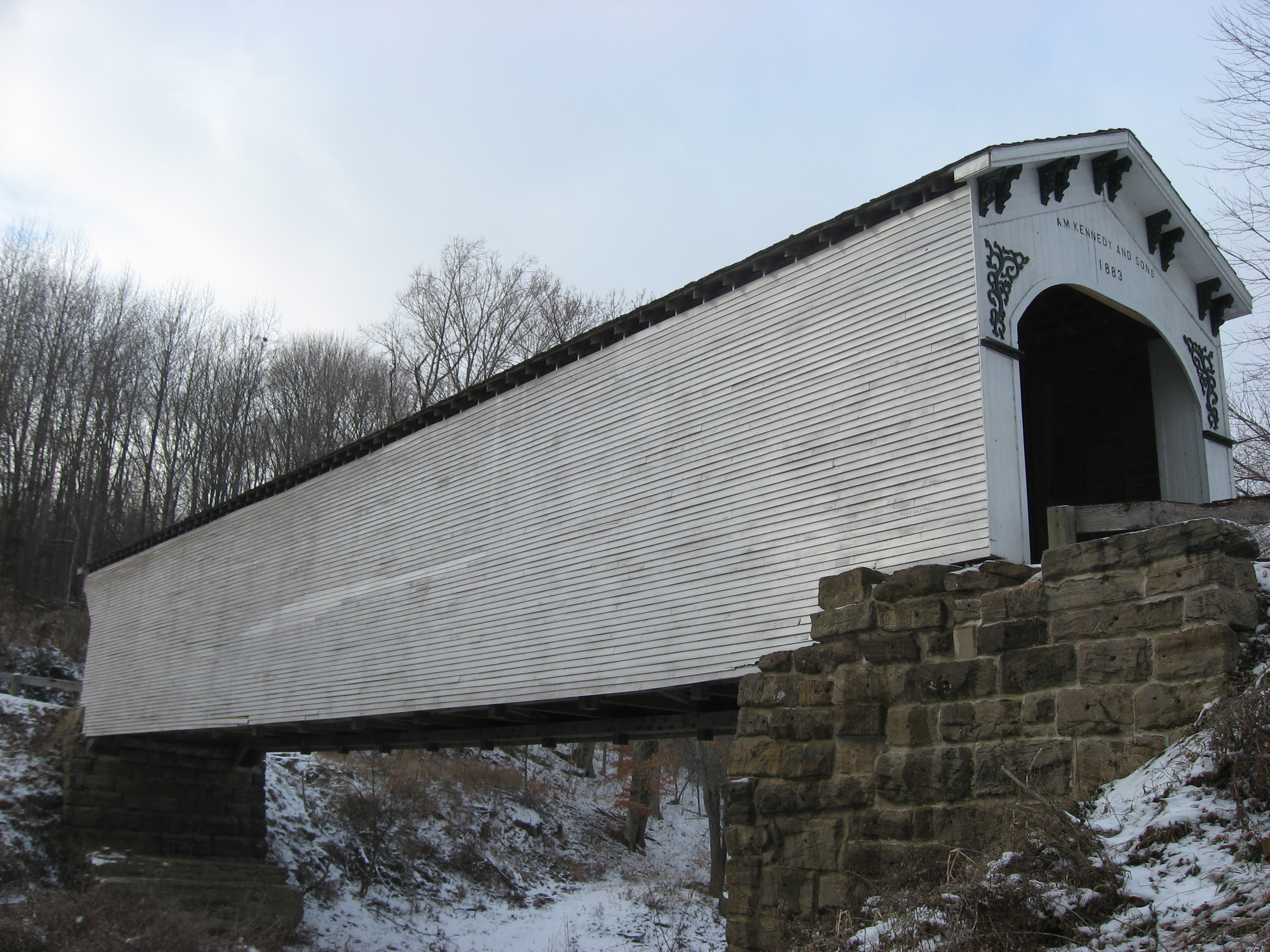 Southern side and eastern portal of the Richland-Plummer Creek Covered Bridge, which carries Baseline Road/Road 25E over Plummer Creek south of Bloomfield in Taylor Township, Greene County, Indiana, United States. Built in 1883, it is listed on the National Register of Historic Places.